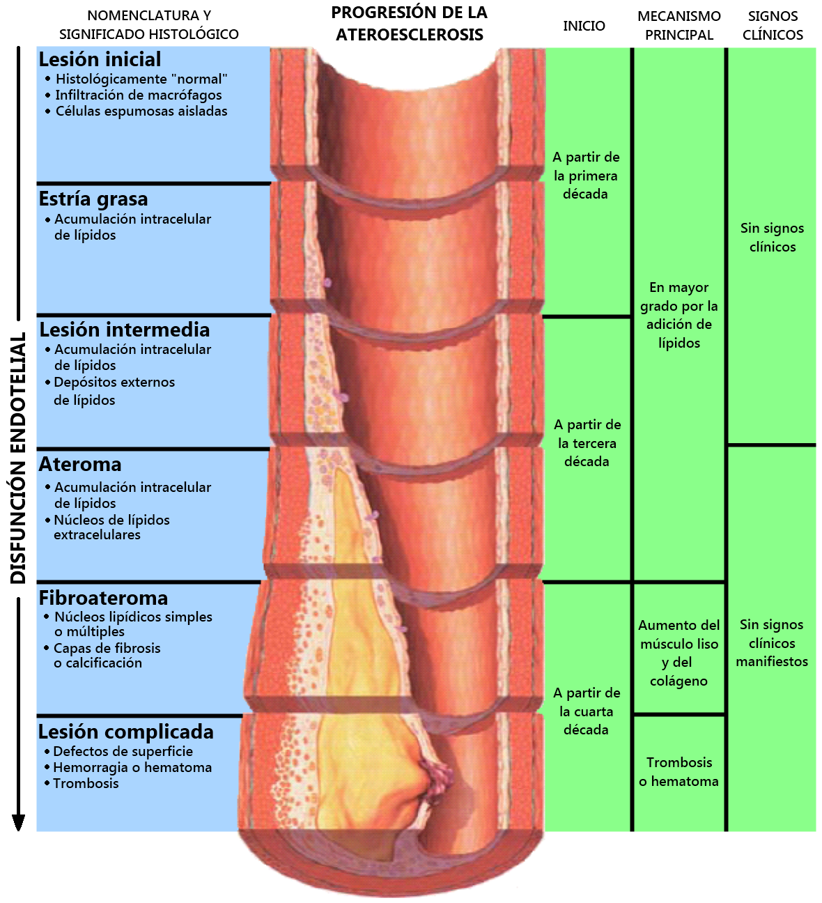 Stages of endothelial dysfunction in atherosclerosis.